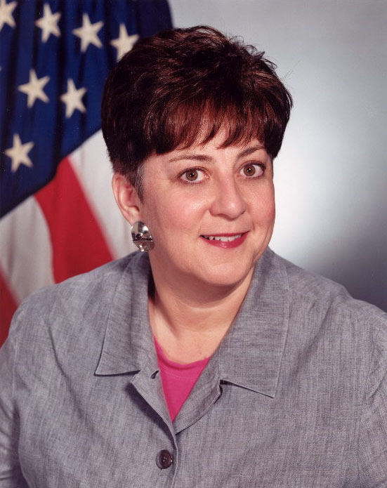 Maria Cino, Deputy Secretary of the Treasury and acting Secretary of the Treasury.